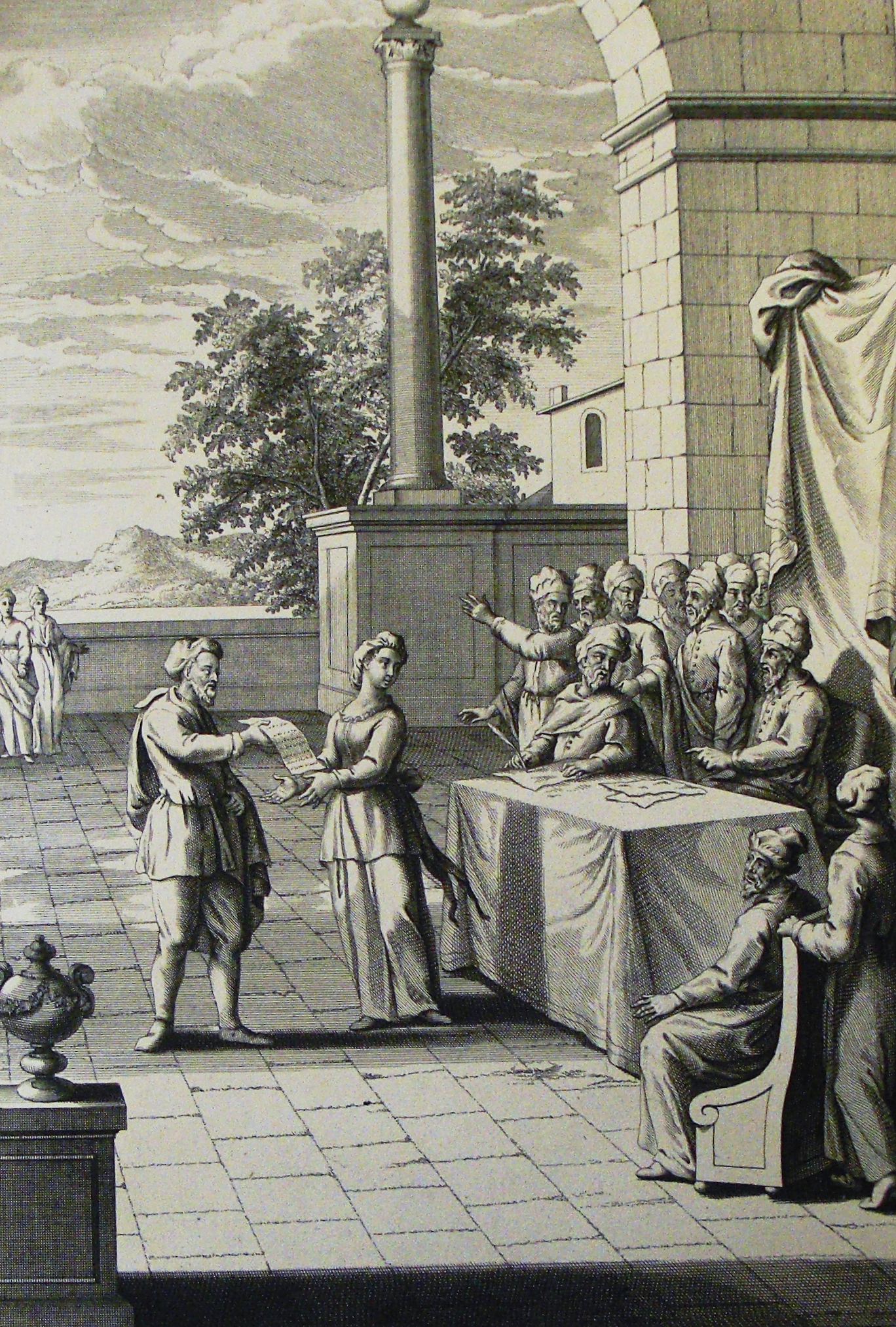 A print from the Phillip Medhurst Collection of Bible illustrations in the possession of Revd. Philip De Vere at St. George’s Court, Kidderminster, England.